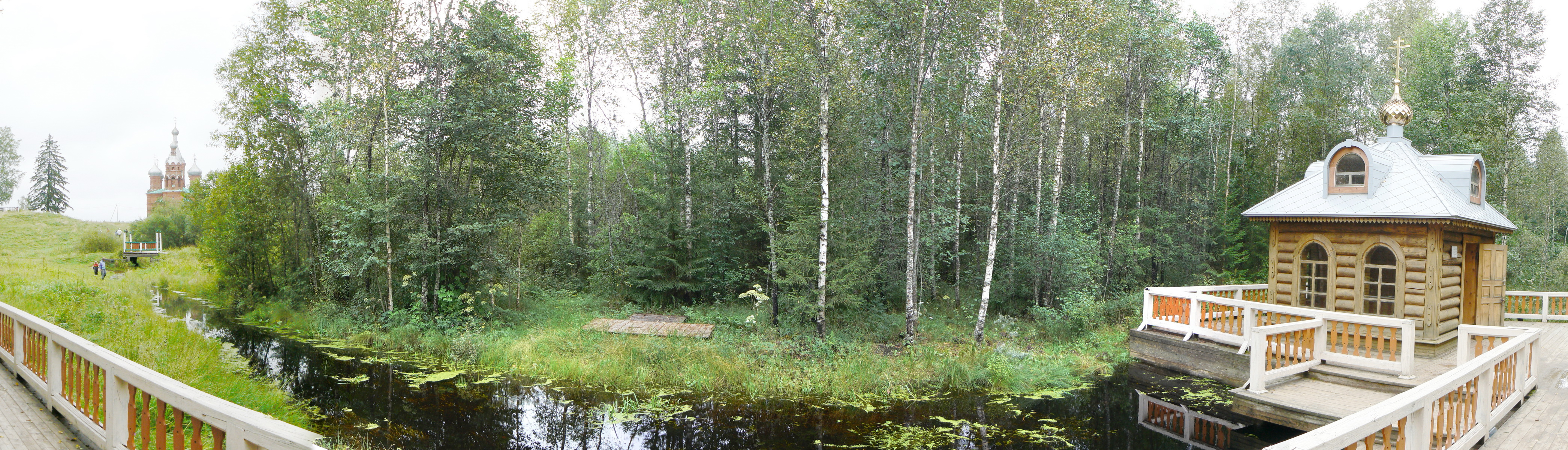 Source of the Volga